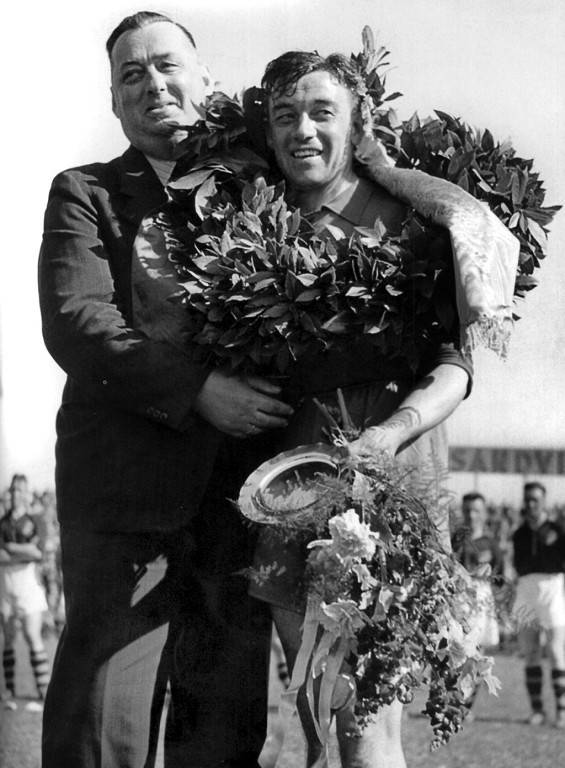 Knut "Knutte" Kroon and John Bill Pettersson